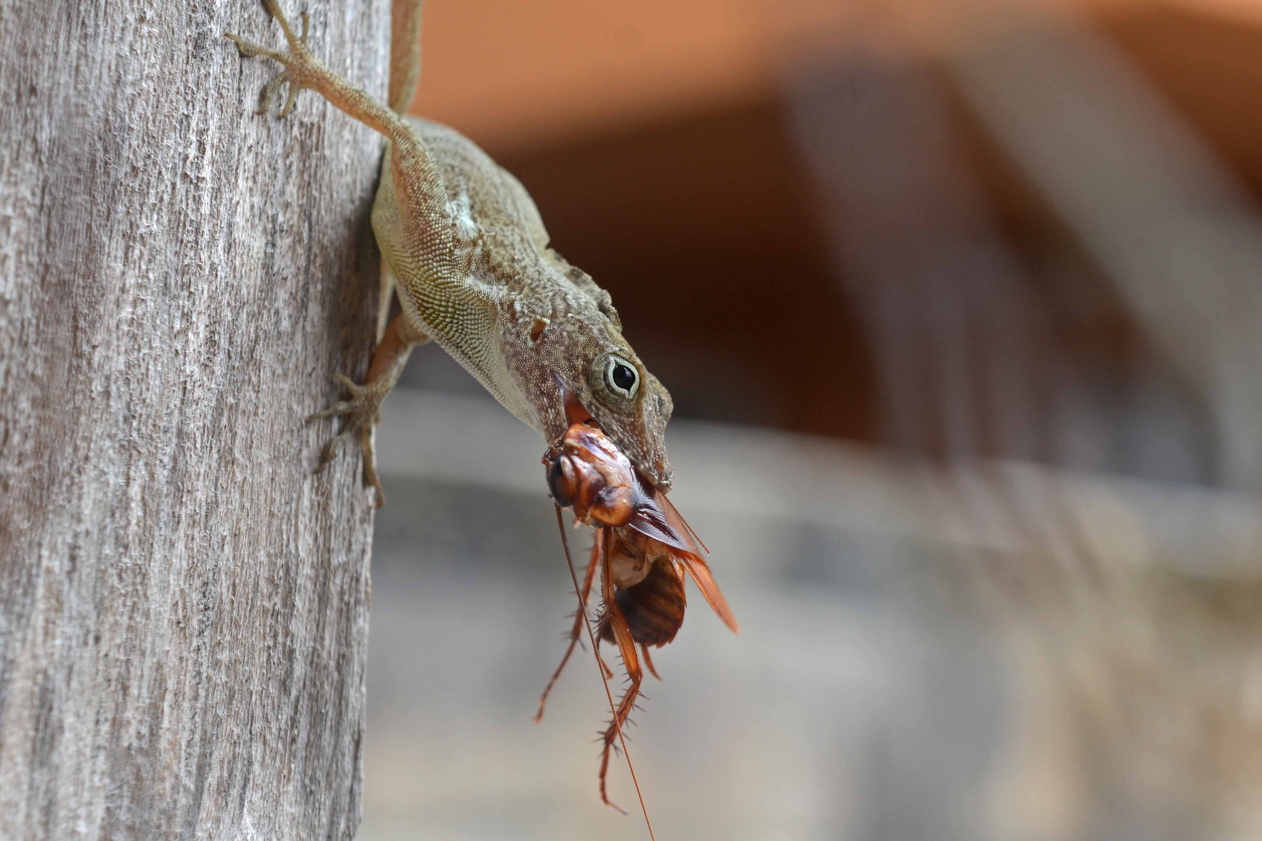 Crested anole (Anolis cristatellus) feeding on a cockroach (Blattodea). Punta Santiago, Humacao, Puerto Rico